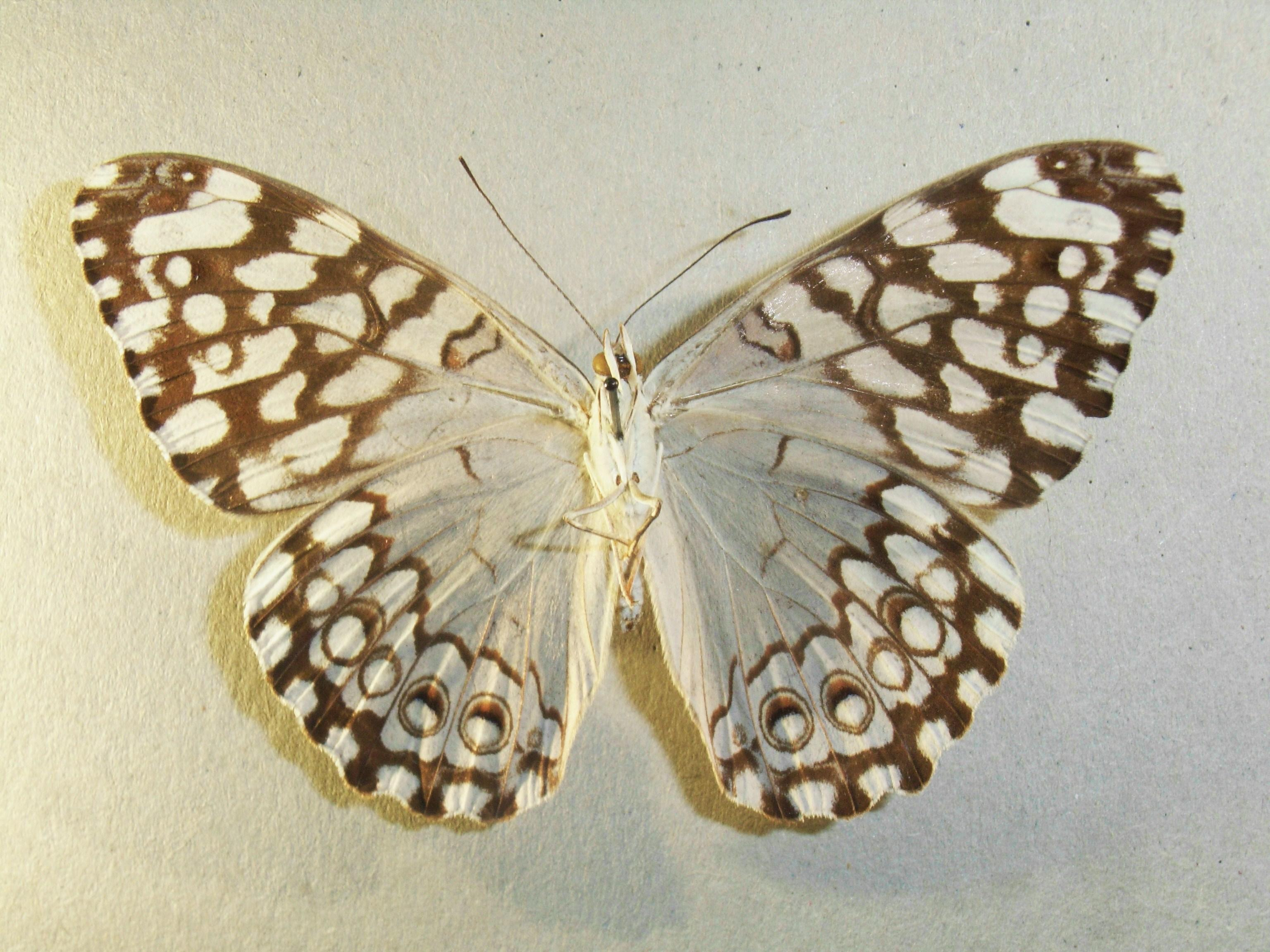 Hamadryas epinome:Biblidinae:Nymphalidae Underside